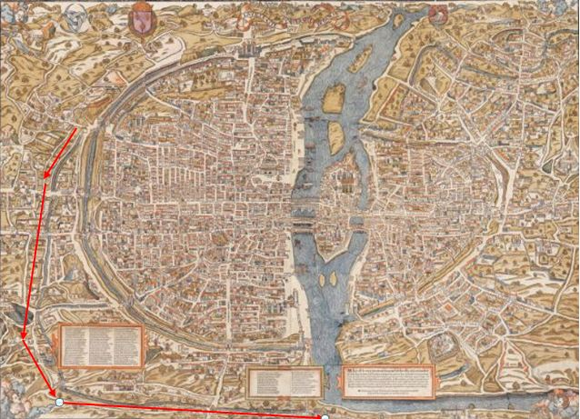 The Ménilmontant stream - Grand Égout on the map of Truschet and Hoyau (1550) marked by red arrows.